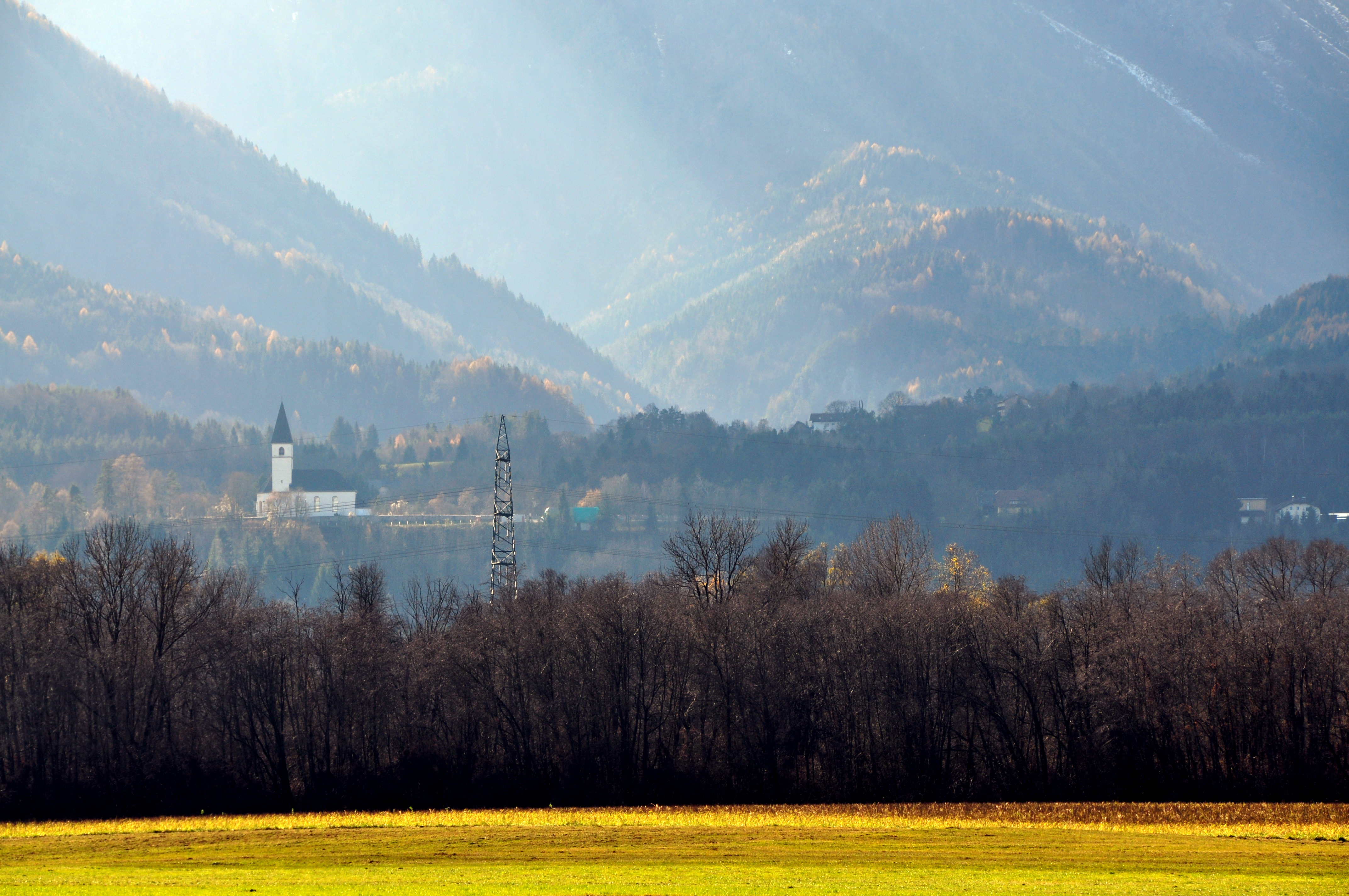 Parish church Holy Jakob, in Saint Jakob, municipality Saint Jakob in the Rosental, district Villach Land, Carinthia, Austria